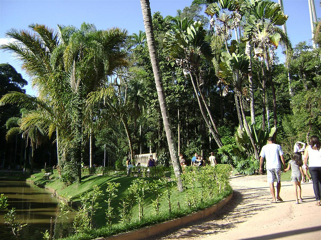 Mariano Procópio Museum, in Juiz de Fora, Minas Gerais, Brazil.